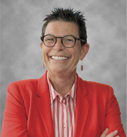 Photo of Breast Cancer surgeon and activist, Dr. Susan Love.